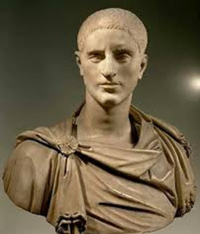 Bust of Roman Emperor Magnus Maximus in the Capitoline Museums